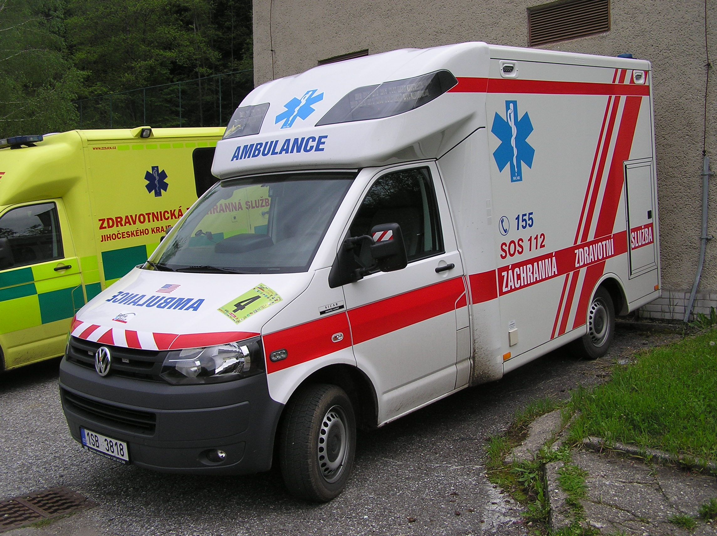 Ambulance vehicle of EMS in the Czech Republic